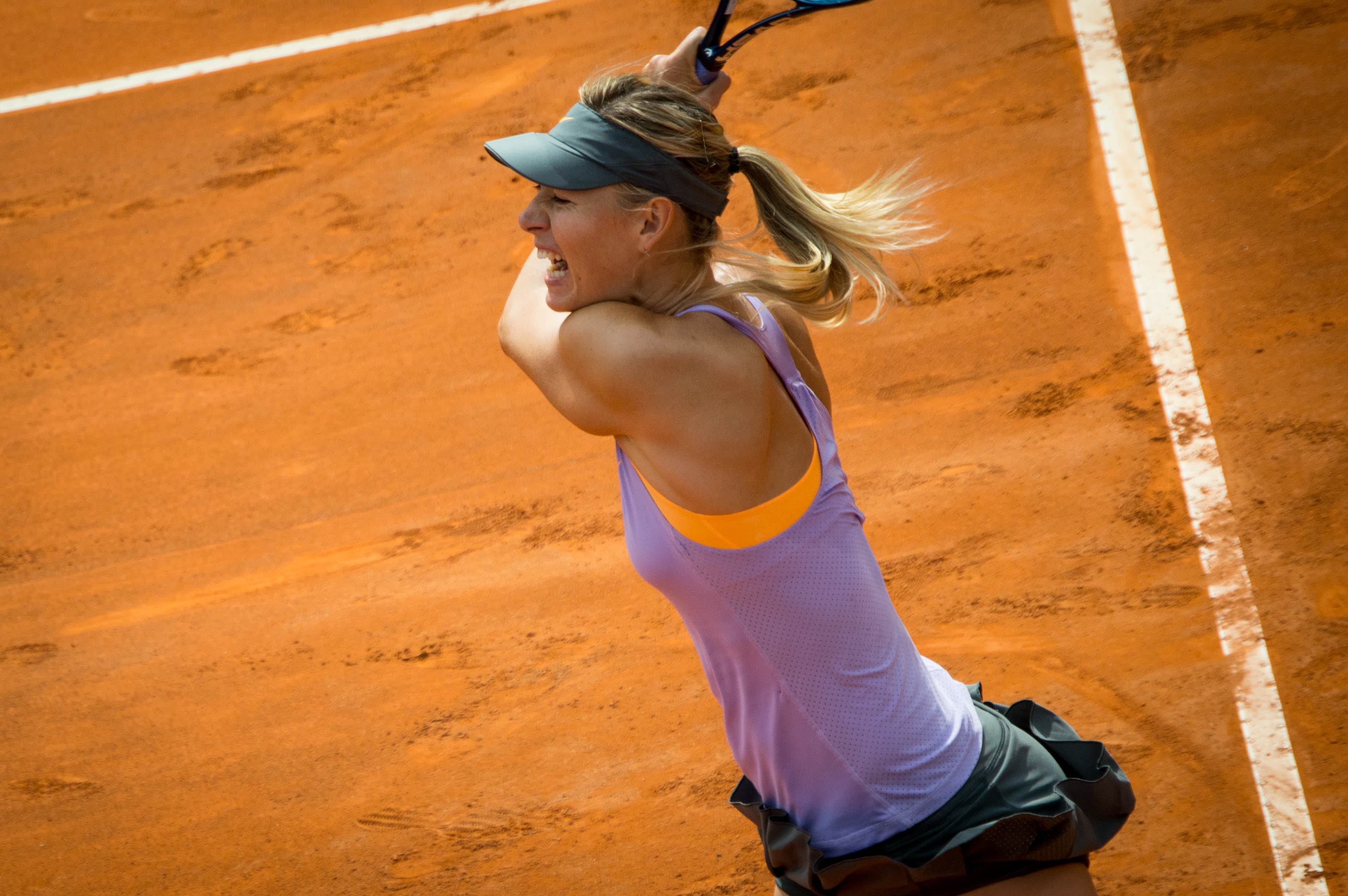 Maria Sharapova in action at the 2014 Italian Open